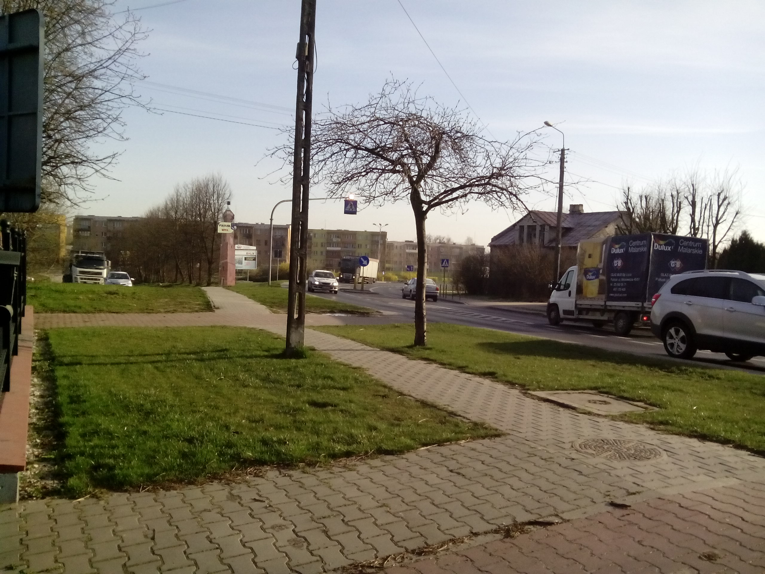 Russian left wing positions defending briges over Narew